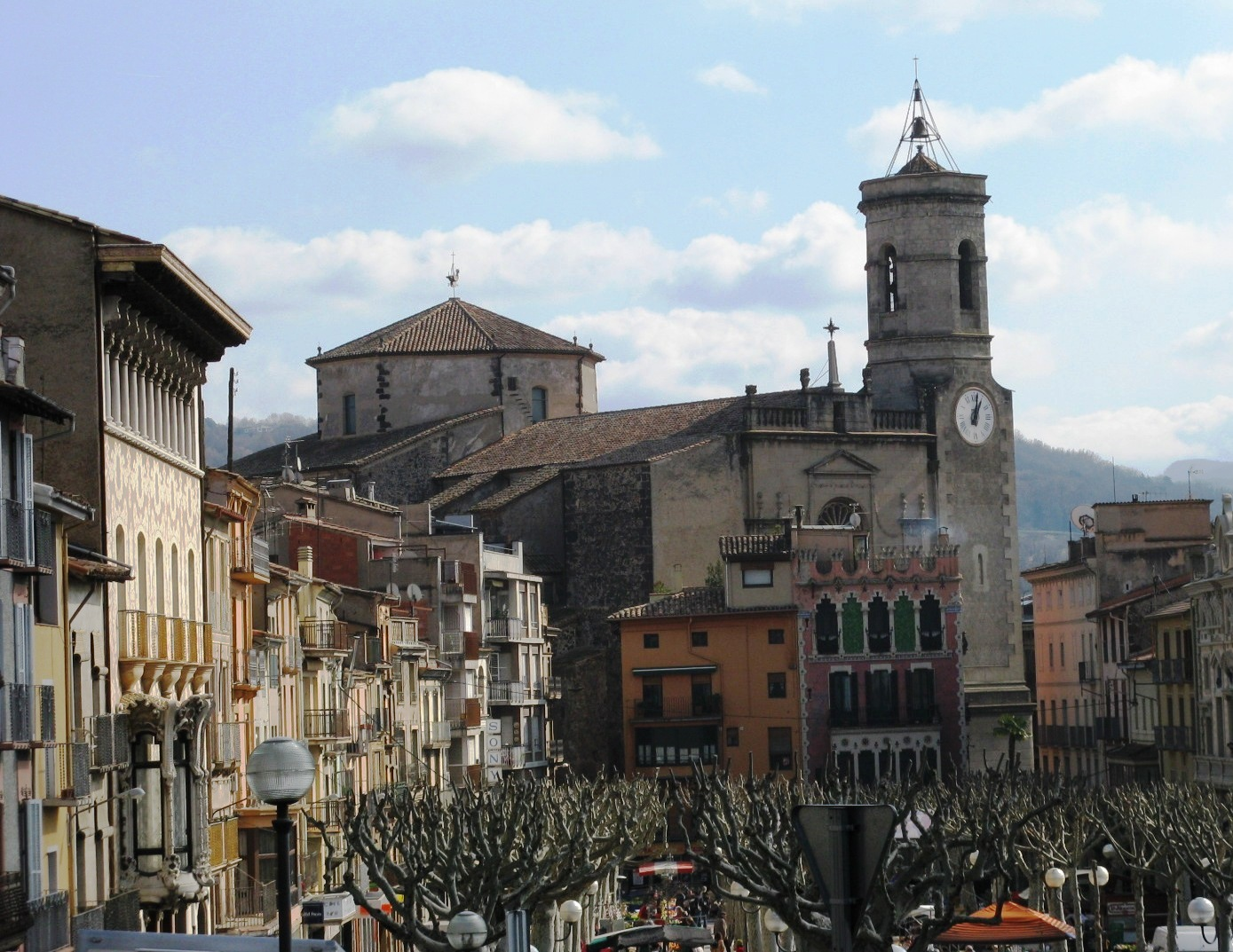 Church of Sant Esteve (Olot, Catalunya, Spain)